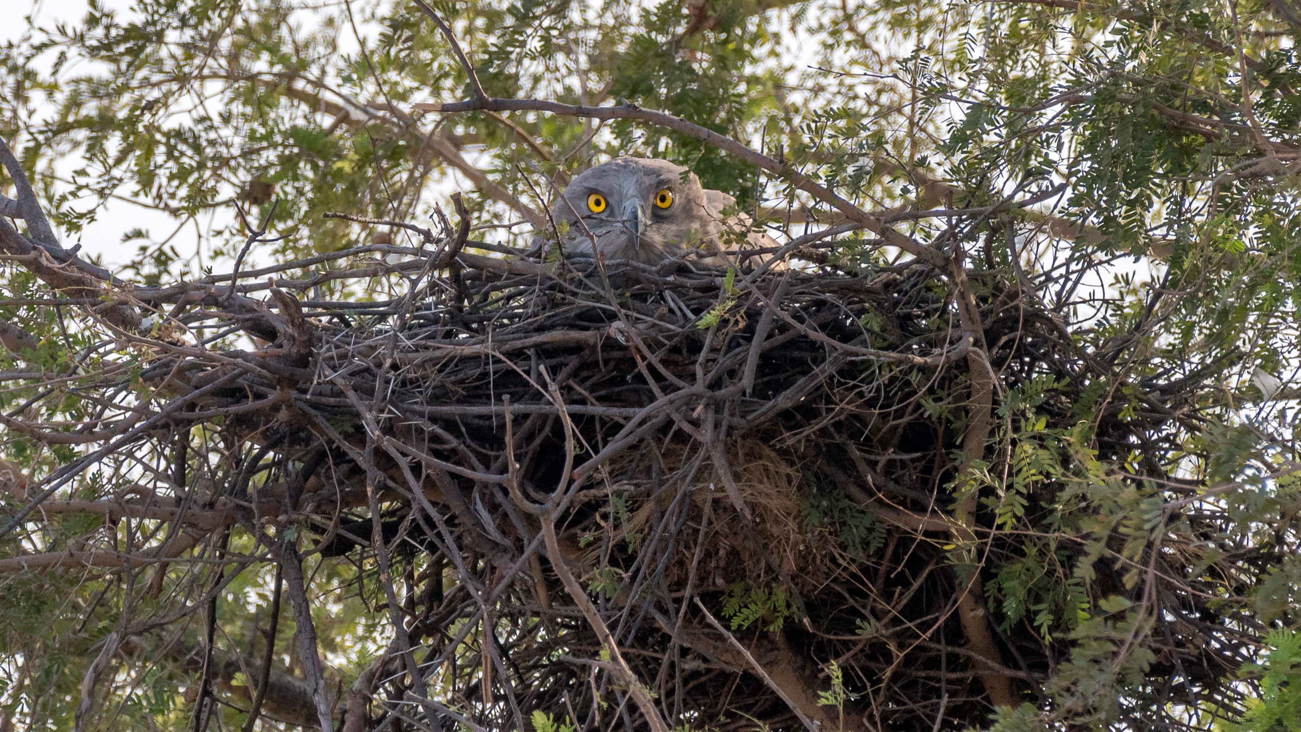 Short-toed snake eagle in its nest, Rollapadu wildlife sanctuary, Andhra Pradesh, India; Photographed by Prasanna Kumar Mamidala from long distance without disturbing the eagle